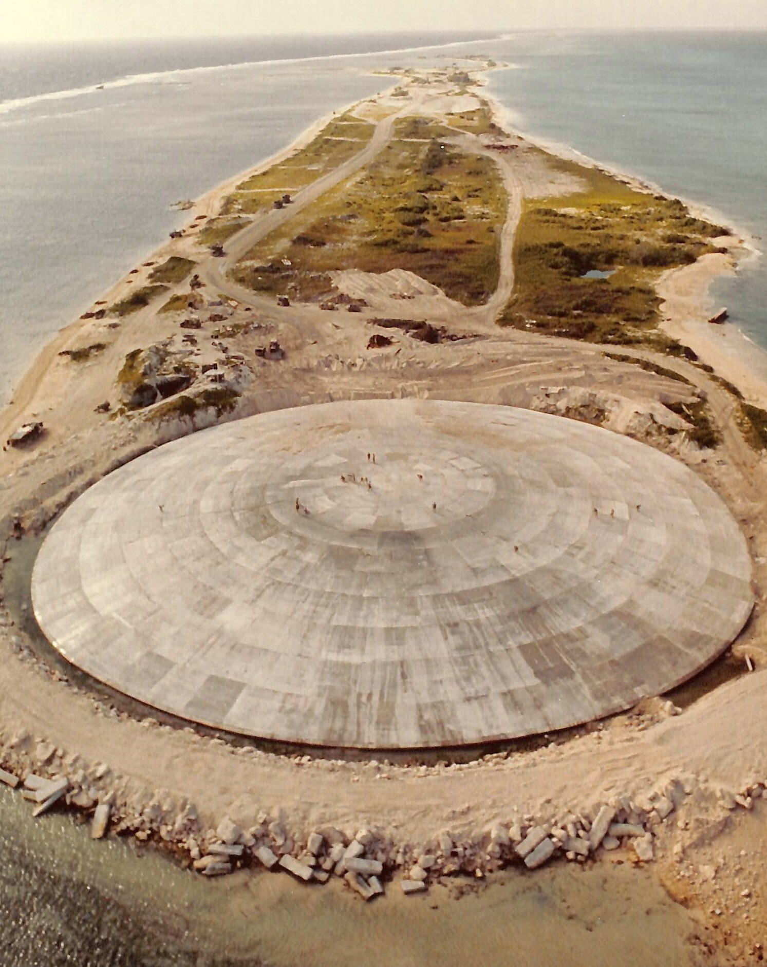 Runit Dome (or Cactus Dome), Runit Island, Enewetak Atoll. Aerial view. In 1977-1980 the crater created by the Cactus shot of Operation Hardtack I was used as a burial pit to inter 84,000 cubic meters of radioactive soil scraped from the various contaminated Enewetak Atoll islands. The Runit Dome was built to cover the material.